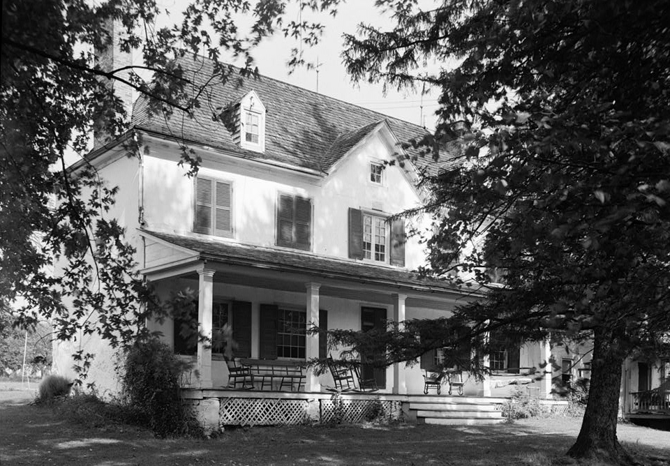 Bon Air, Fallston, Maryland, USA. Cropped.